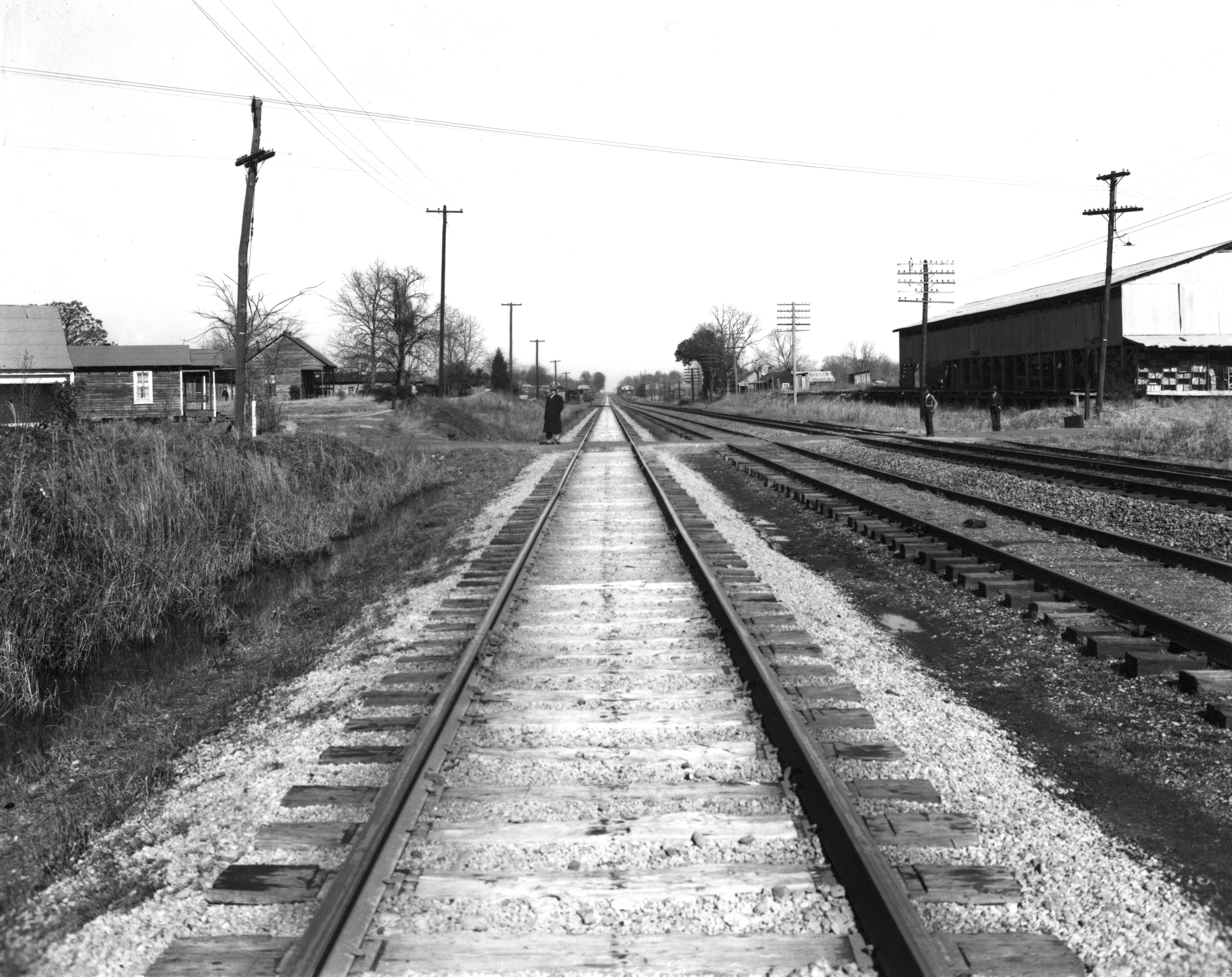 Railroad tracks. Collection: Hamilton (Luther) Photograph Collection Call number: PI/1994.0004 System ID: 100725. Link to the catalog Please see our profile page for information on ordering. Scanned as tiff in 2009/10/12 by MDAH. Credit: Courtesy of the Mississippi Department of Archives and History